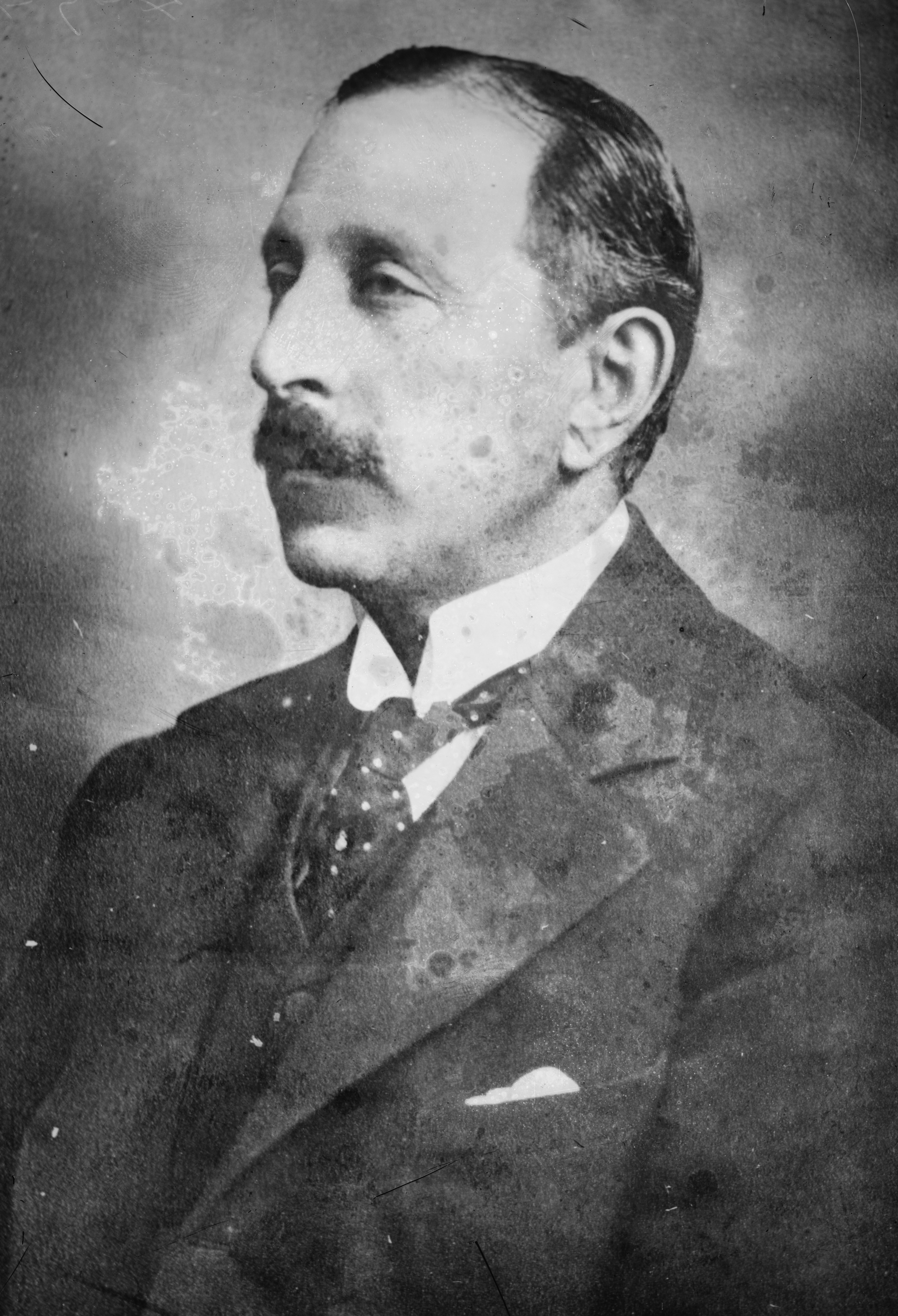 Ralph David Blumenfeld in 1919